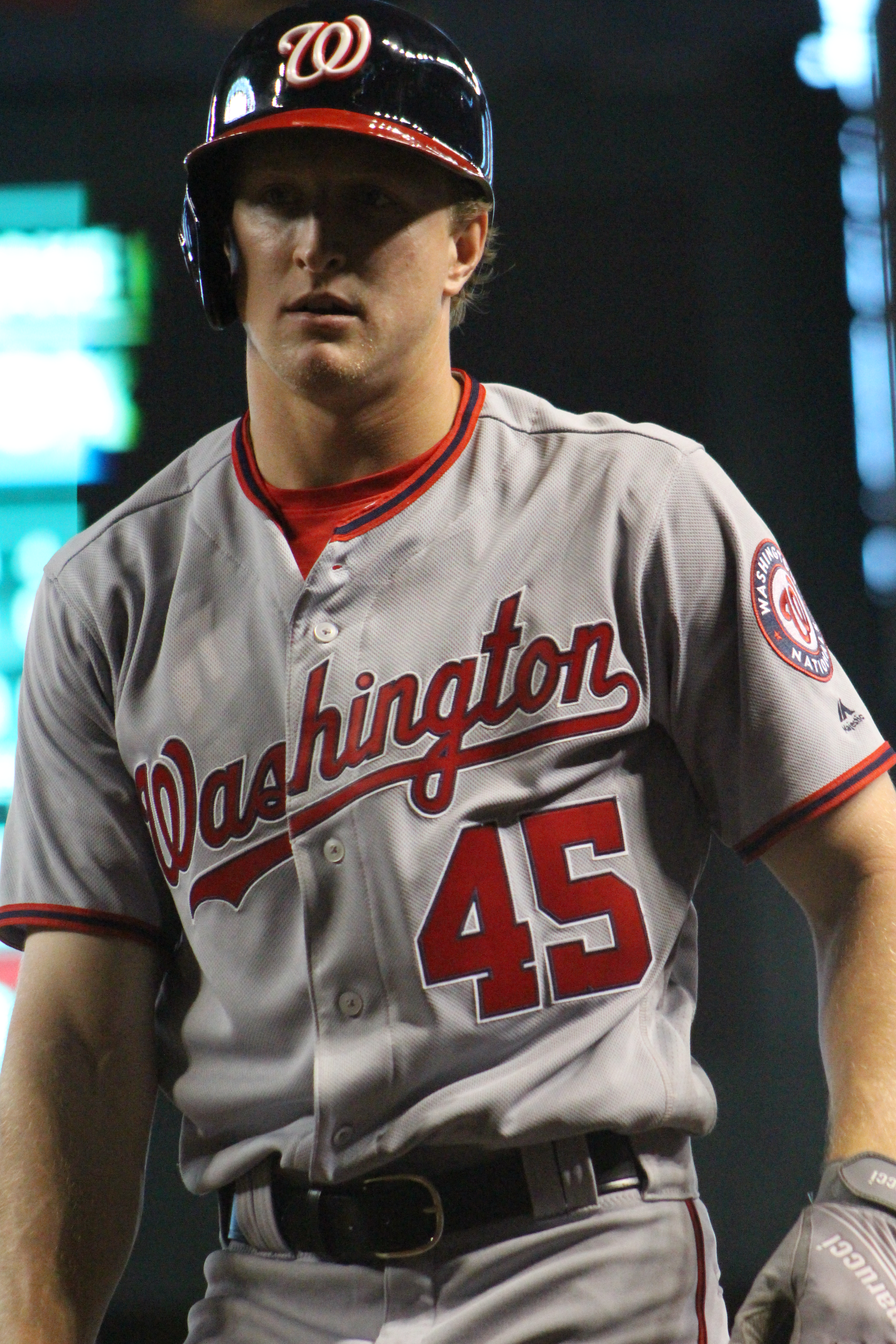 Andrew Stevenson on the night of his Major League debut.